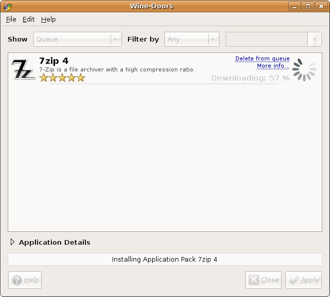 Screenshot of Wine-Doors 0.1.2 installing 7-Zip